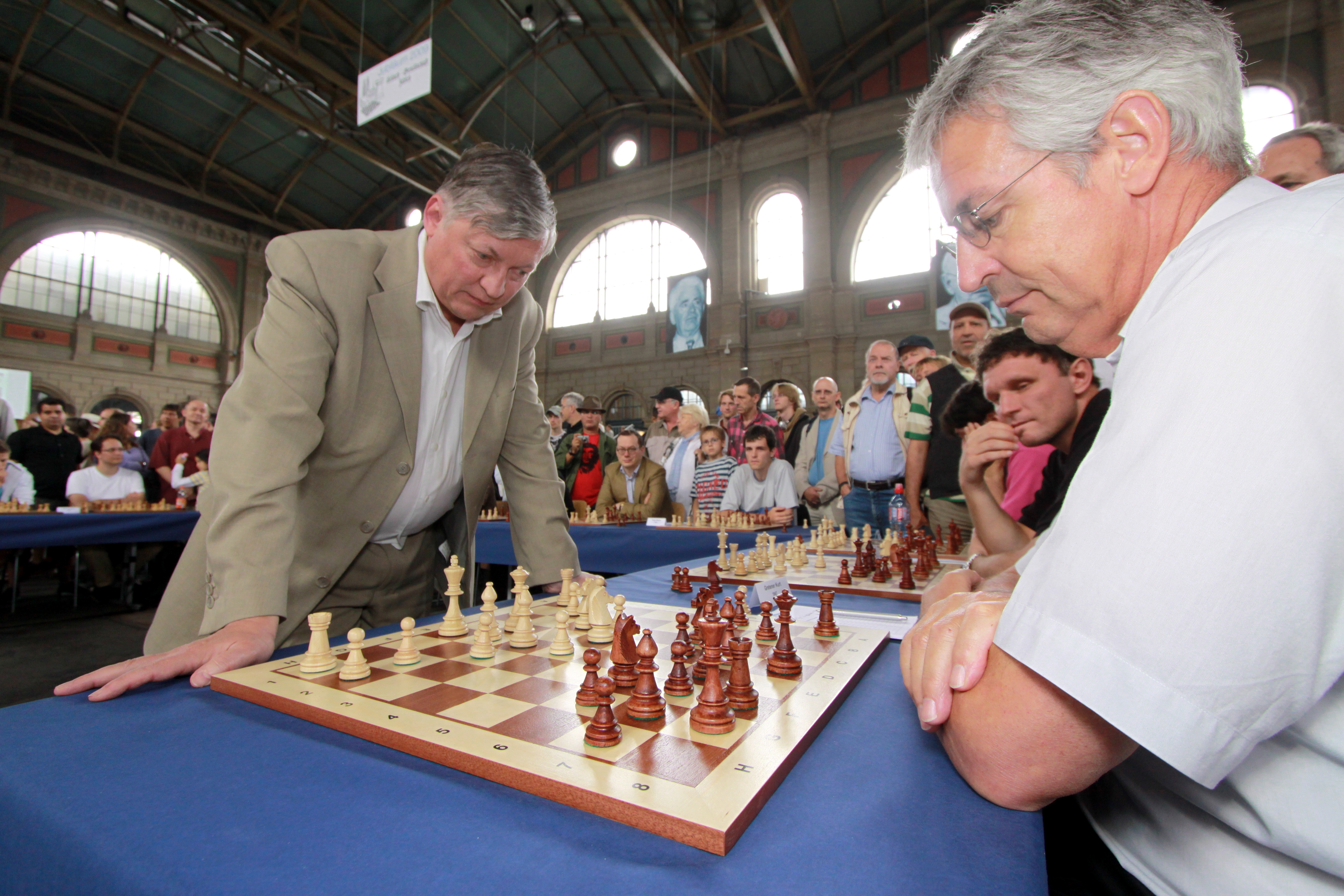 World Chess Champion Anatoly Karpov, Russia